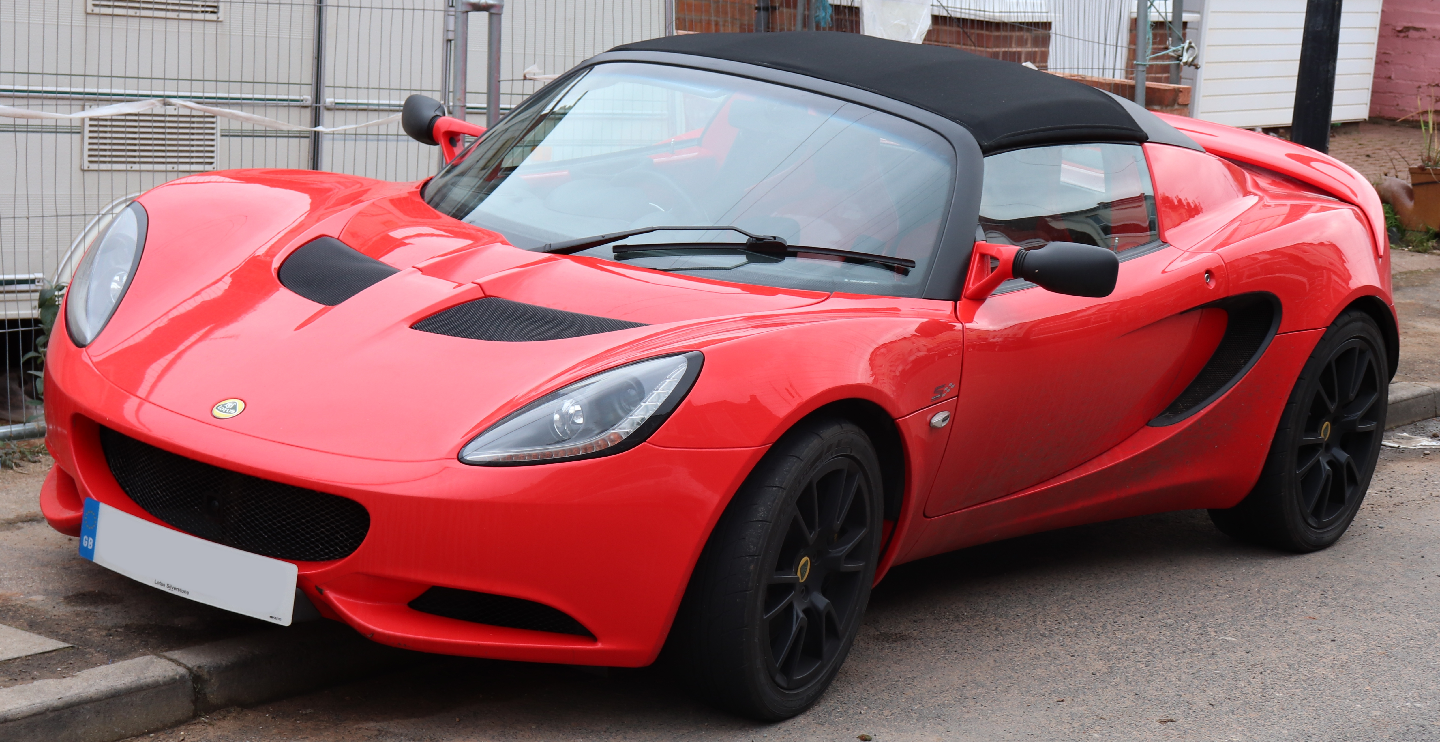 2014 Lotus Elise S Club Racer 1.8 Front Taken in Leamington Spa